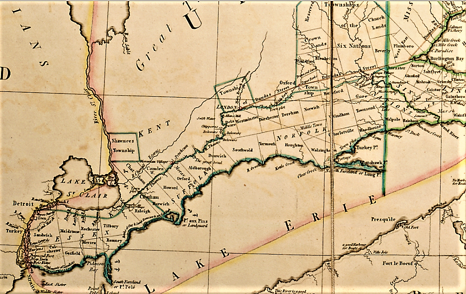 extracted and enhanced image of portion of Smythe's Map of Upper Canada published in London in 1800. drawn from image of full map on University of Toronto Map Library website, described as public domain document